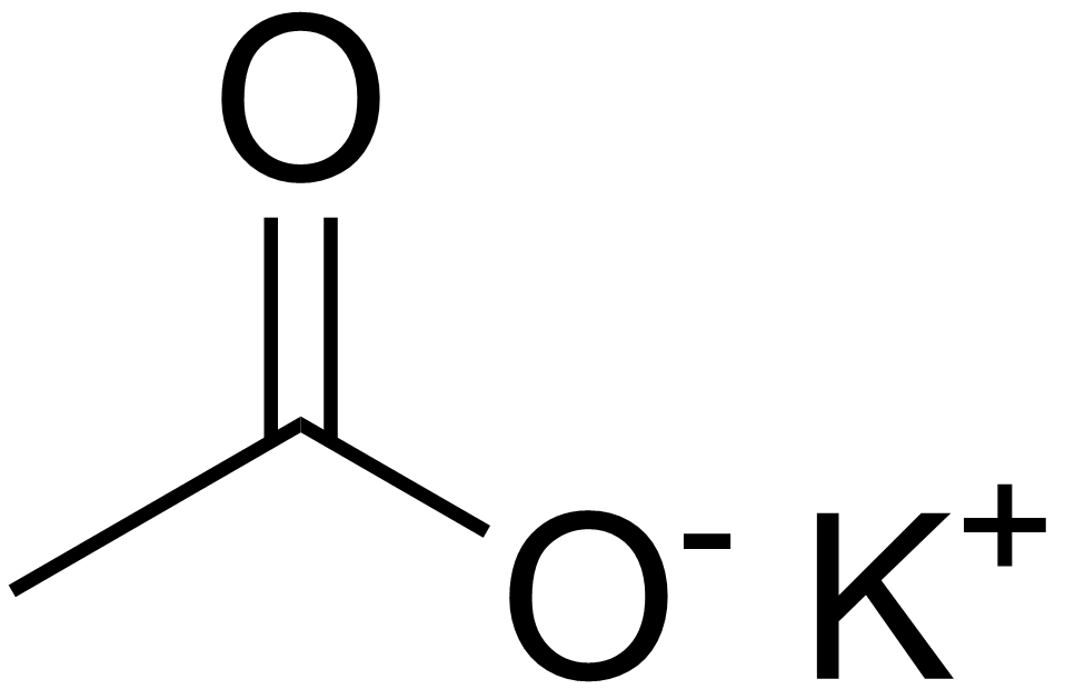 Chemical structure of potassium acetate